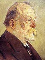 Mehmet Emin Yurdakul (1869 - 14.01.1944)